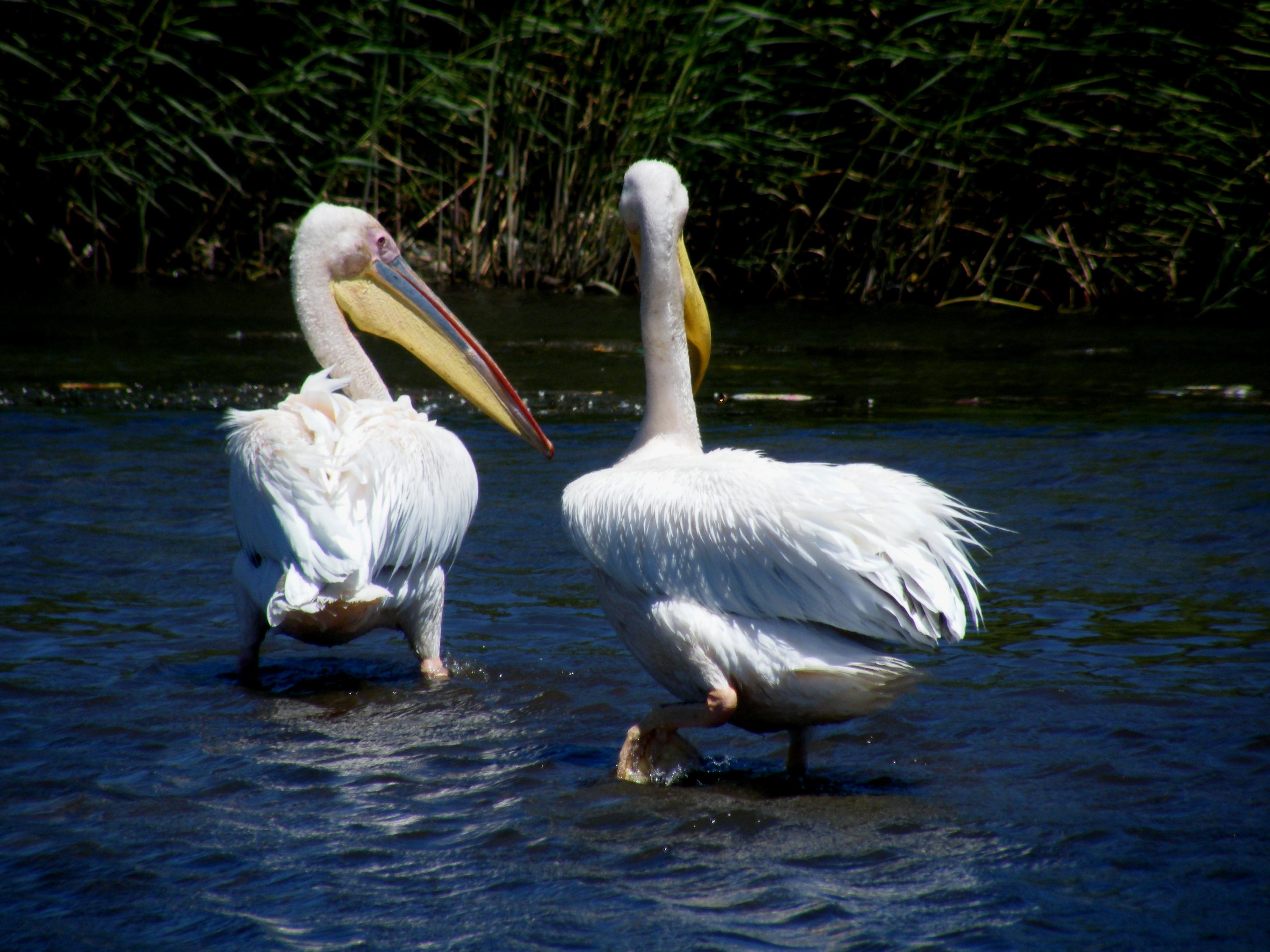 Great White Pelican, breeding plumage. Liesbeek River Observatory, Cape Town.